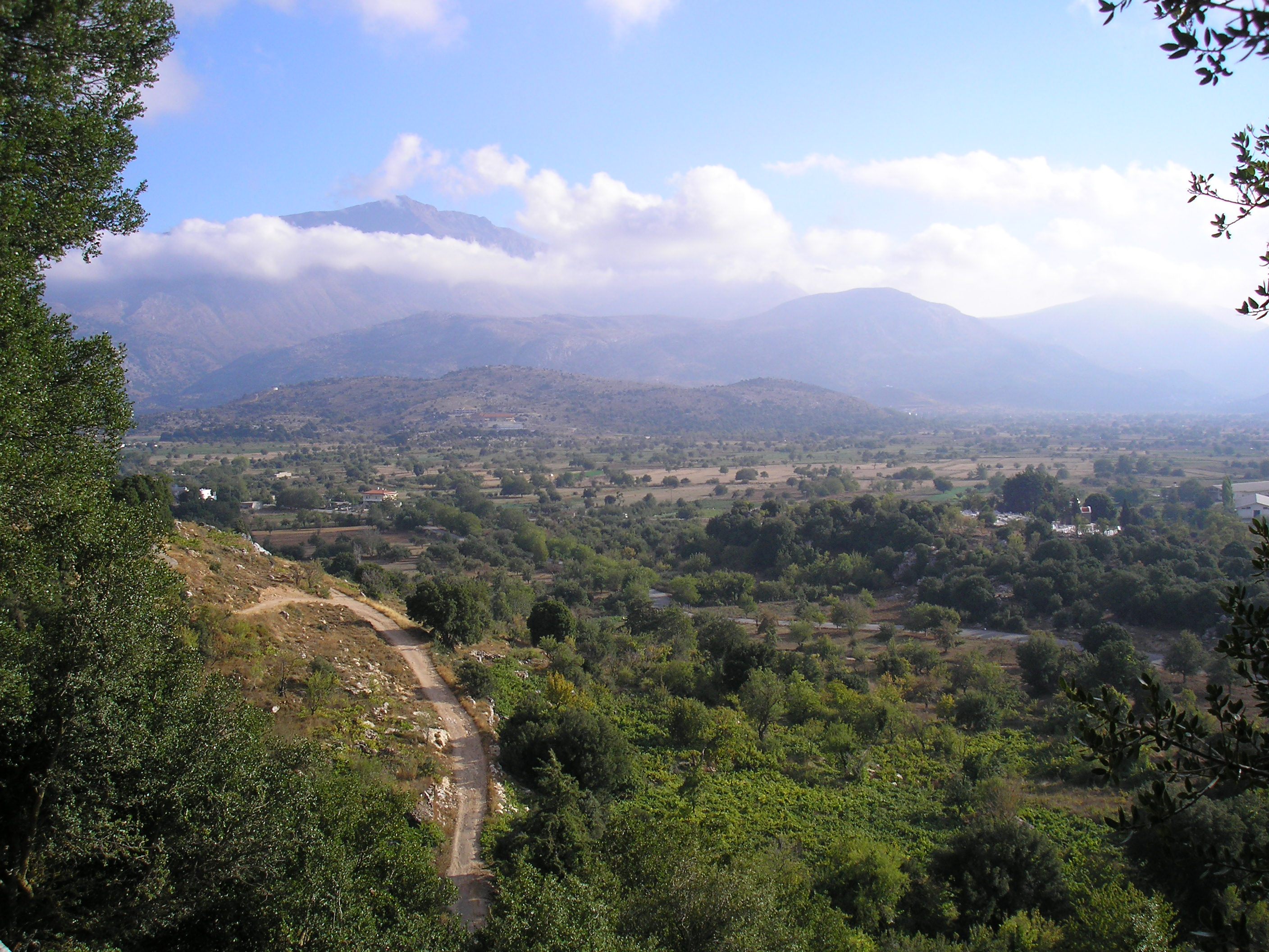 Crete, Lassithi plateau